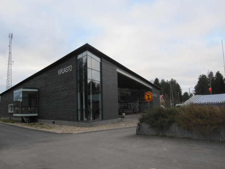 Lumijoki new library building, opened in January 2005.